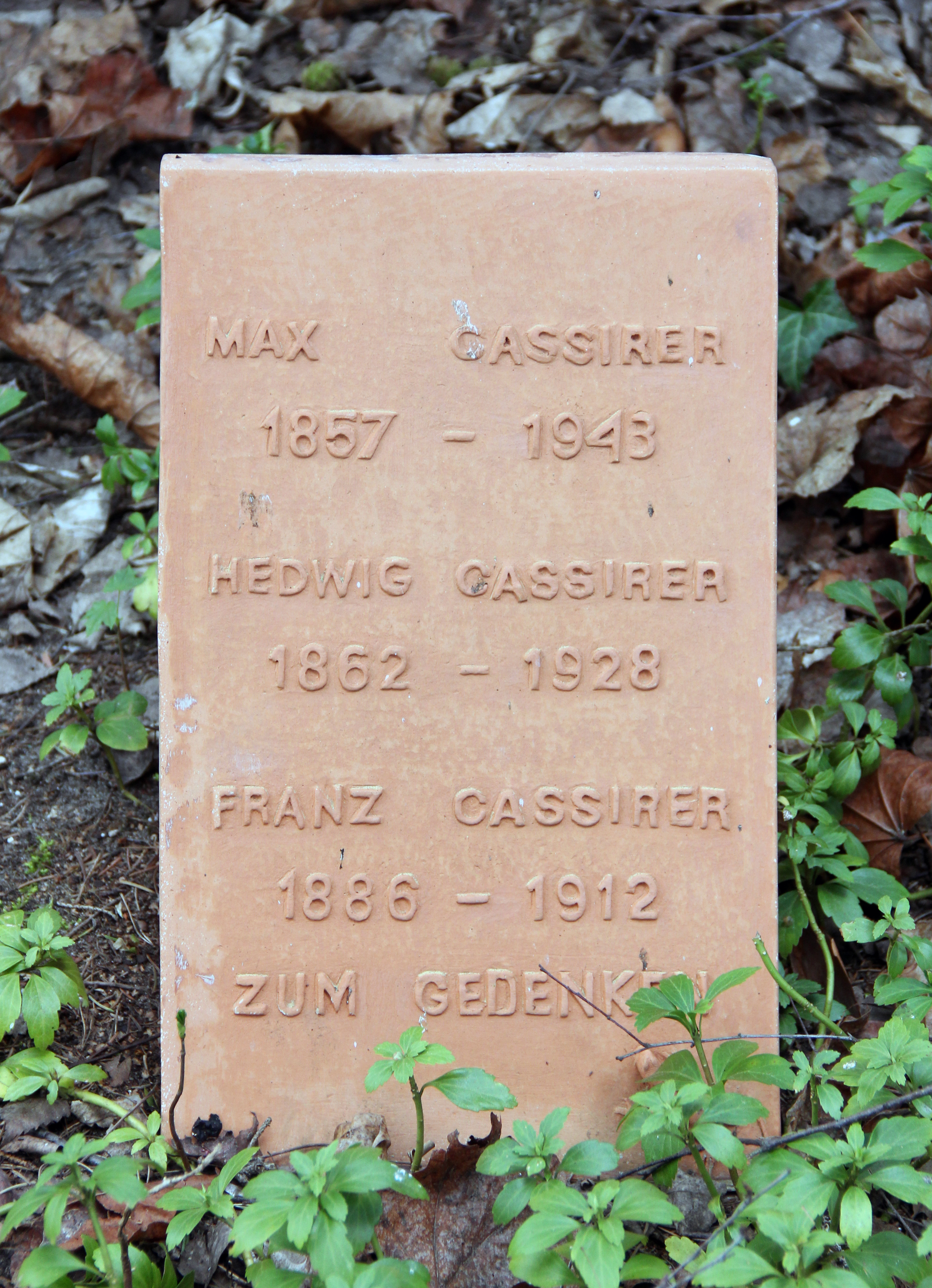 Grave, Max Cassirer, Hedwig Cassirer and Franz Cassirer, Trakehner Allee 1, Berlin-Westend, Germany